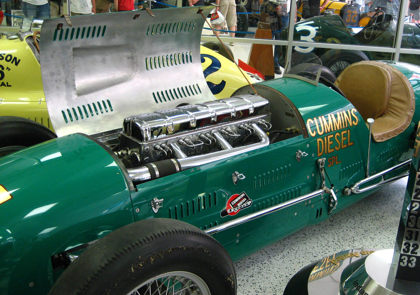 The Cummins Diesel Special at the Indianapolis Motor Speedway Hall of Fame Museum.